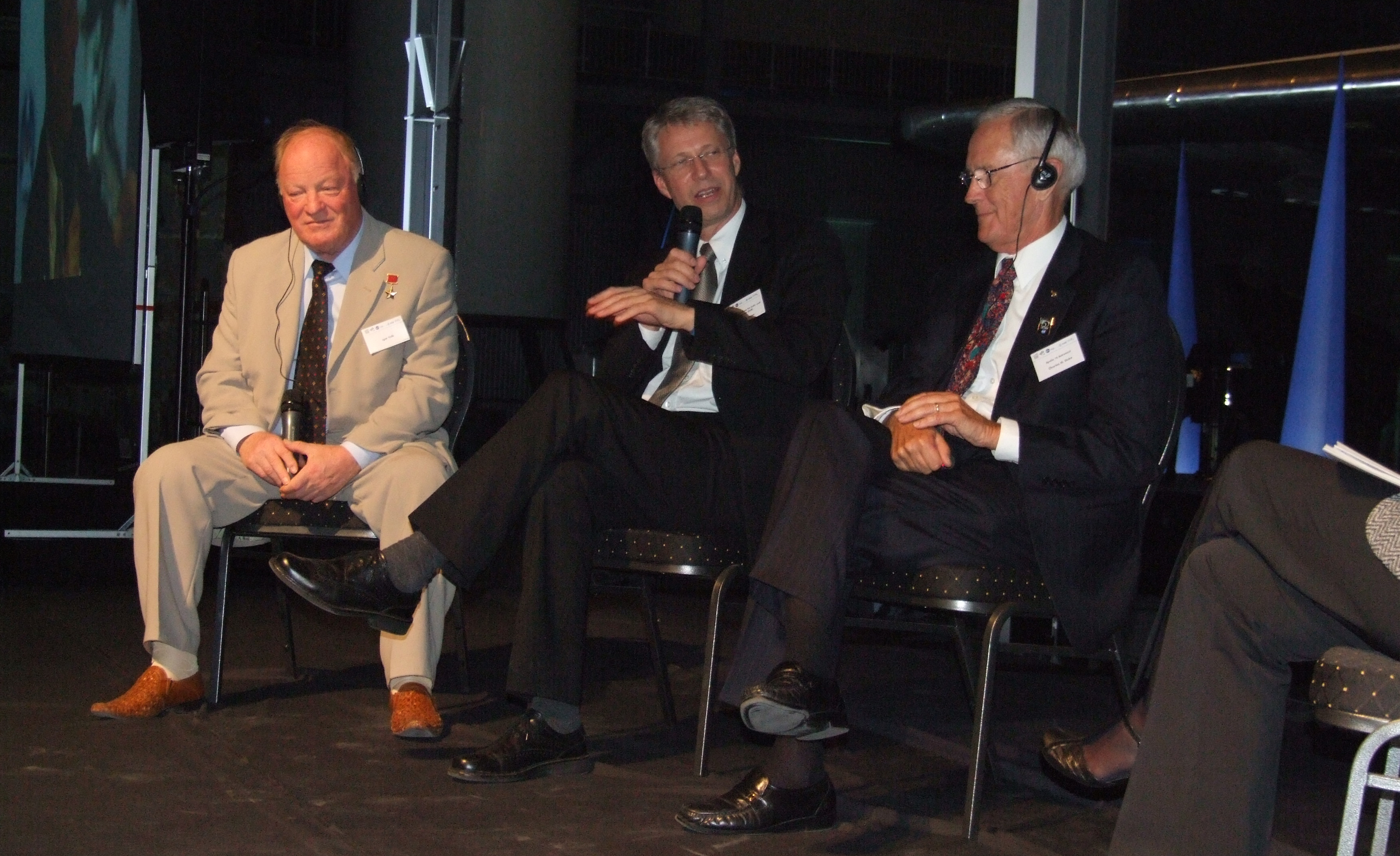 Igor Petrovich Volk (Test pilot of OK-GLI), Thomas Reiter and Charlie Duke at the opening of the space hall of the Technik-Museum Speyer, Germany 2.10.2008